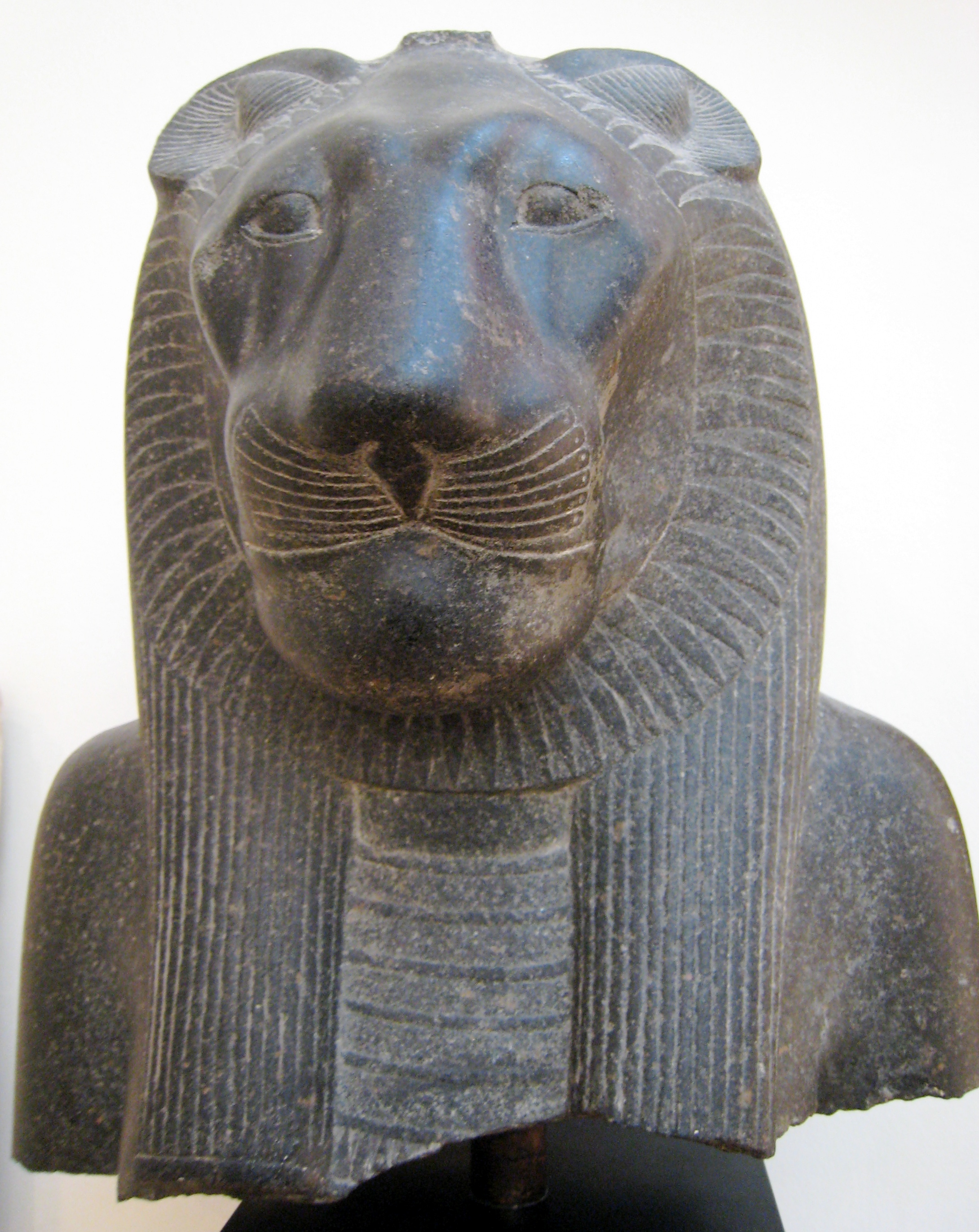 Statue of Sekhmet from the temple of Mut. granite, Luxor, New Kingdom/1403-1365 BC